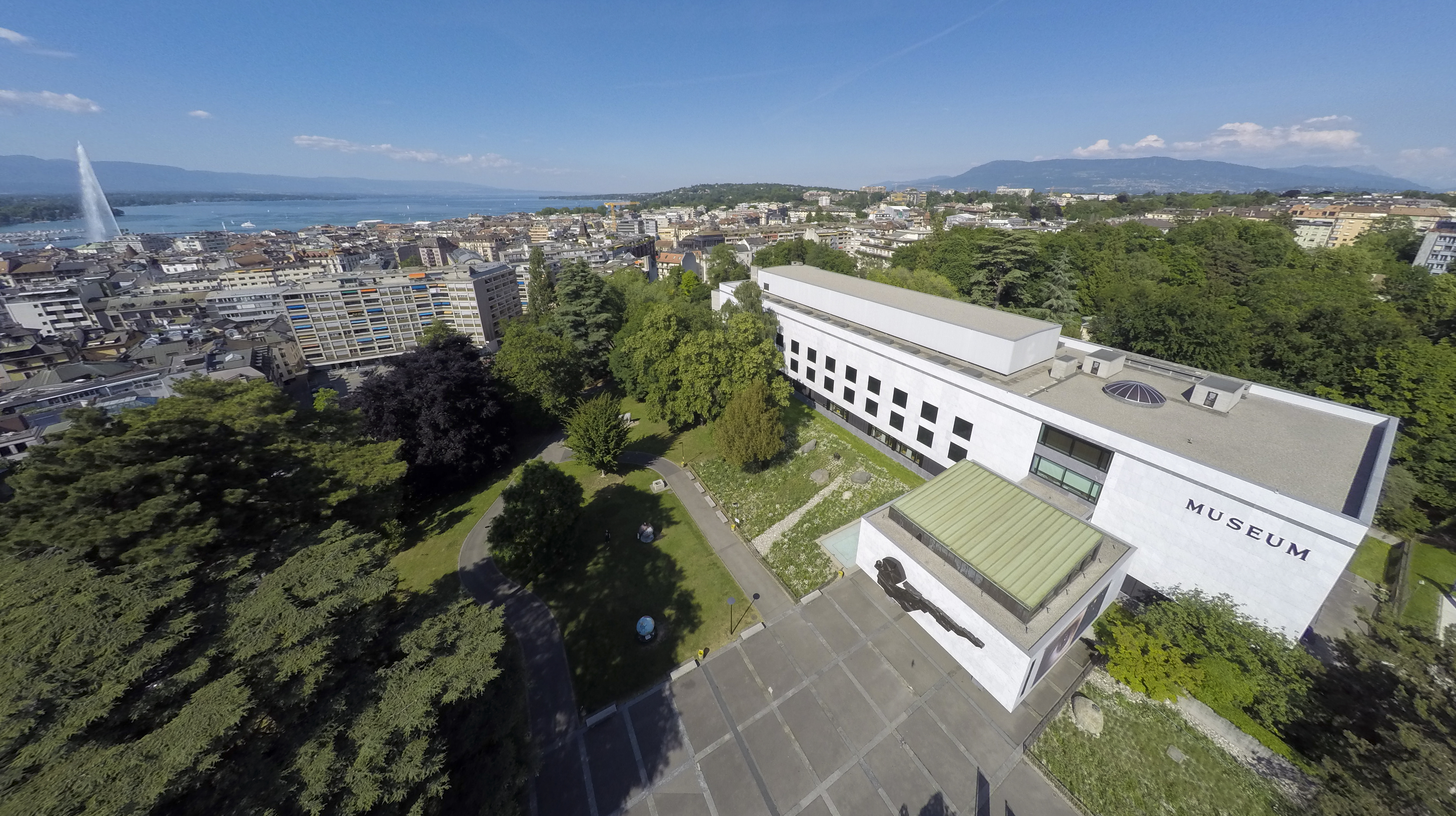 Aerial view of the Natural history museum of Geneva, with the Jet d'Eau and the Eaux-Vives in the back.